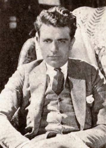 Film director Wesley Ruggles, on page 34 of the May 15, 1920 Exhibitors Herald.